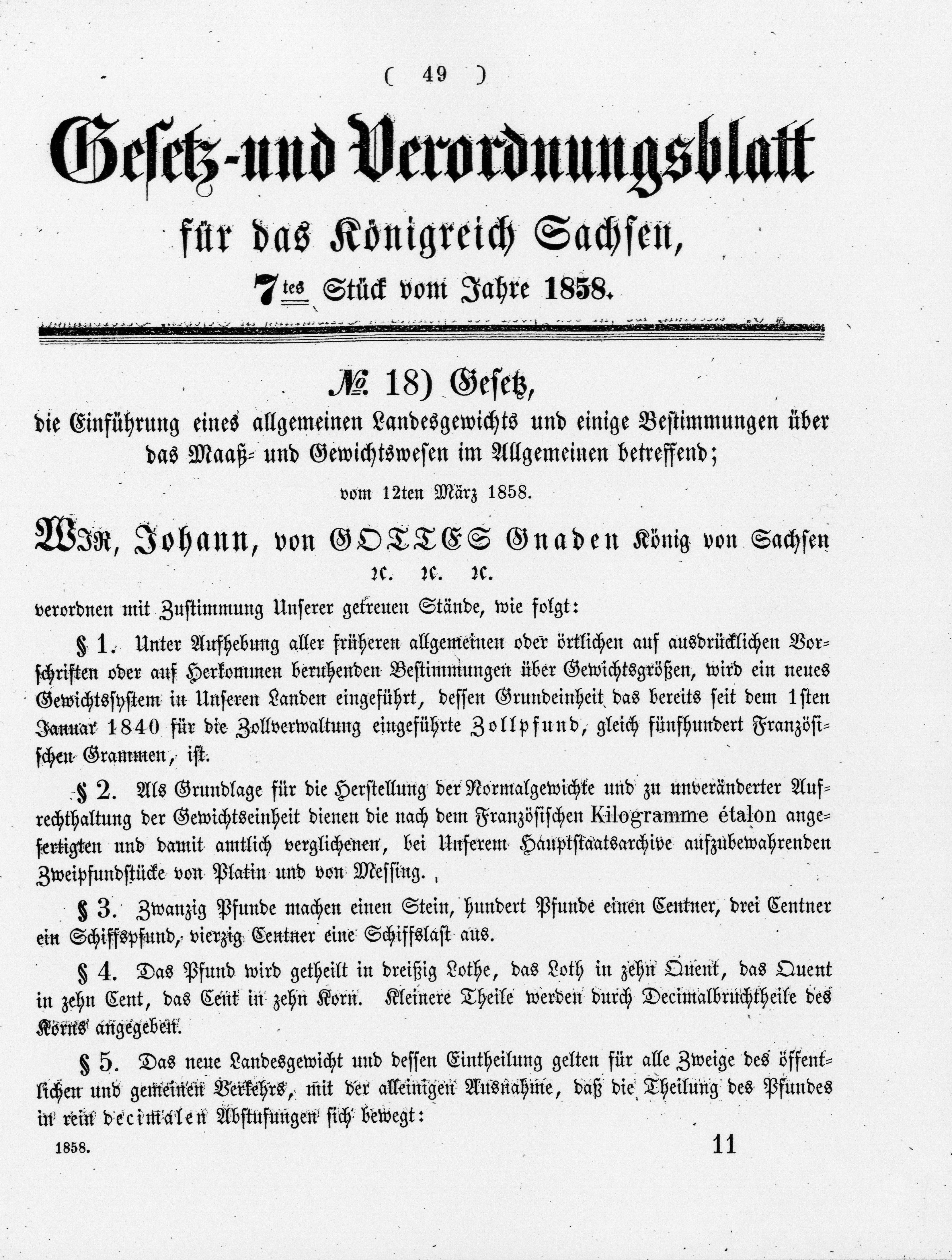 law of Saxony, 12 march 1858, legislation of new measures and weights (preliminary stage of metric system), page 1